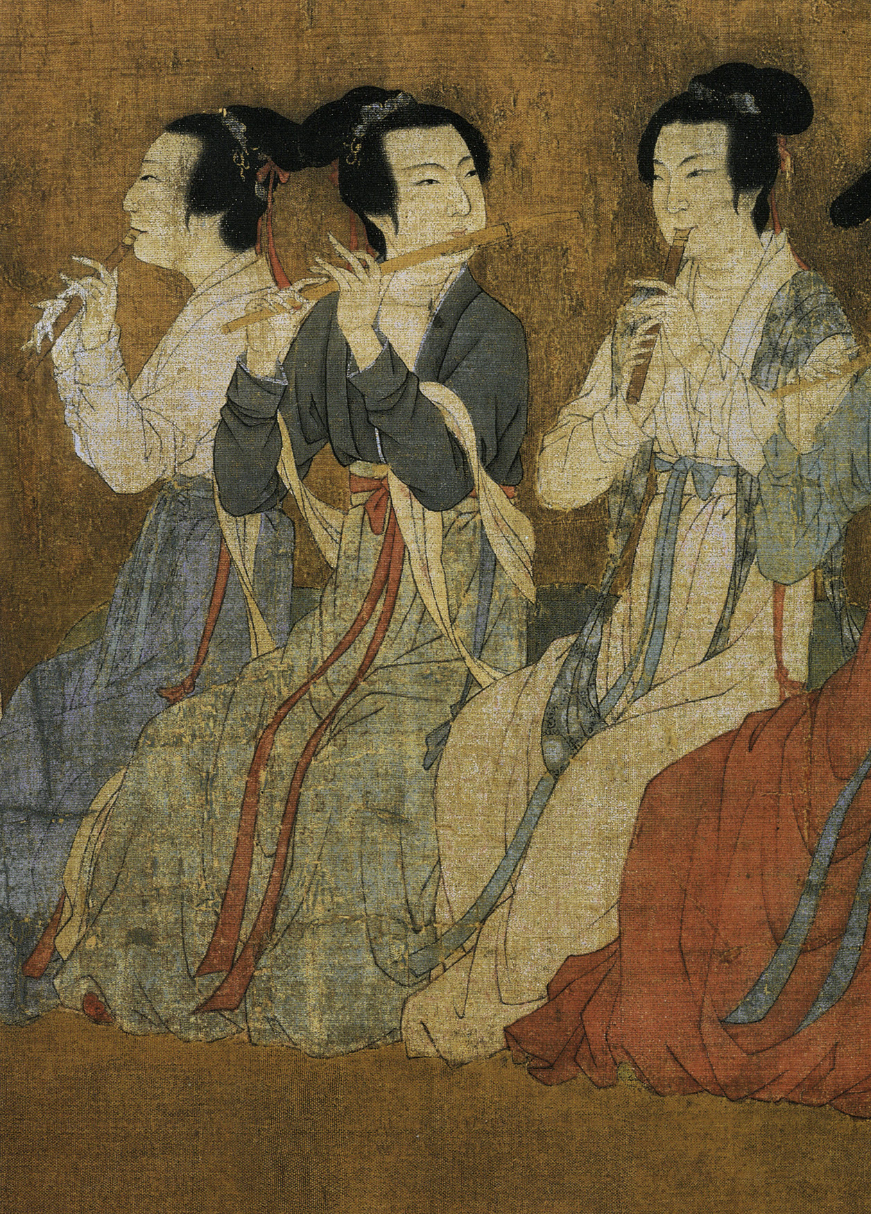 Night Revels